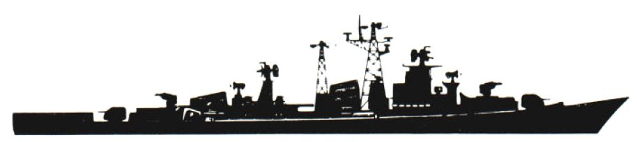 Profile of a Soviet Kashin-class (Project 61) guided missile destroyer.